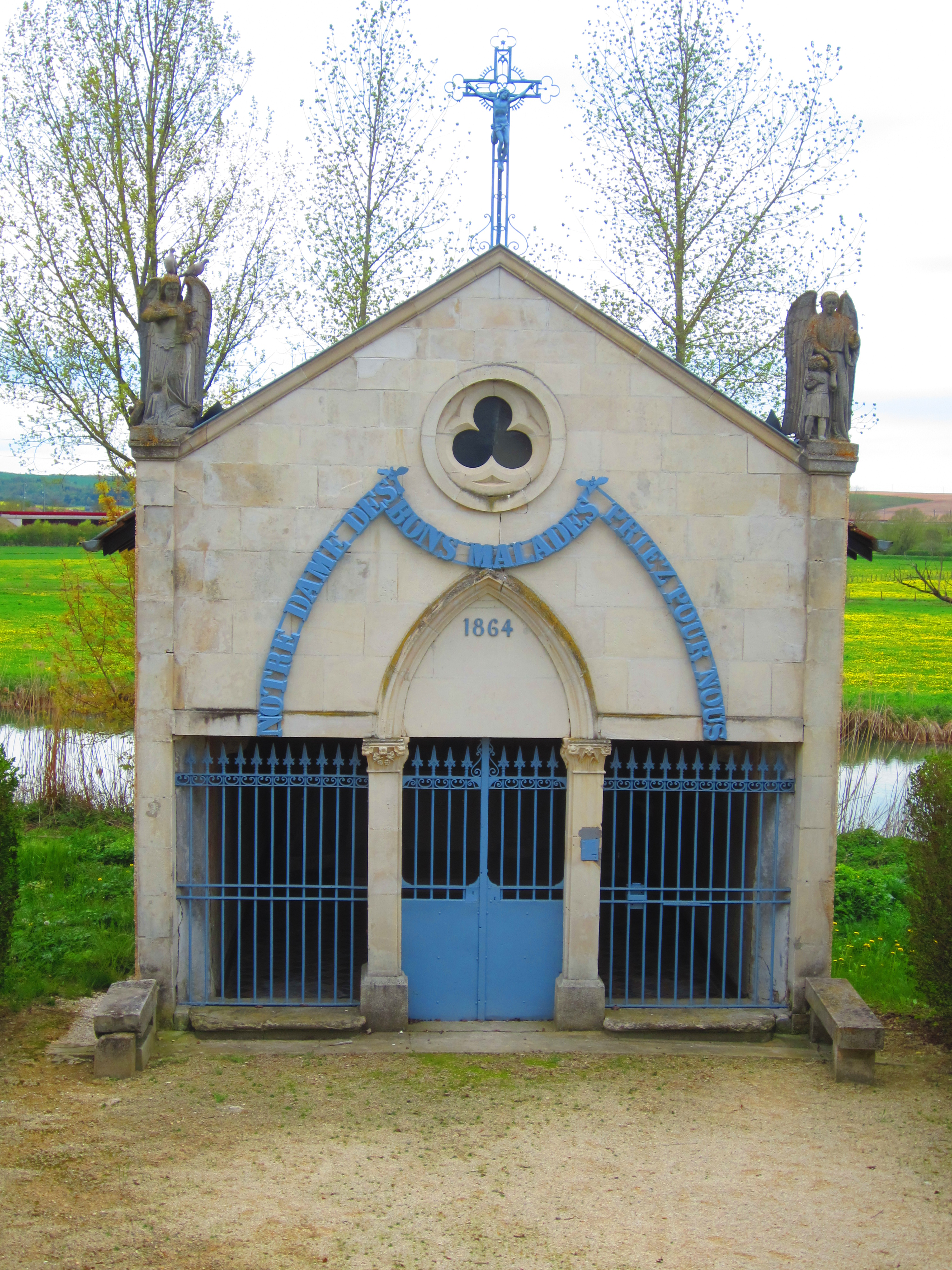 Lacroix Meuse chapel